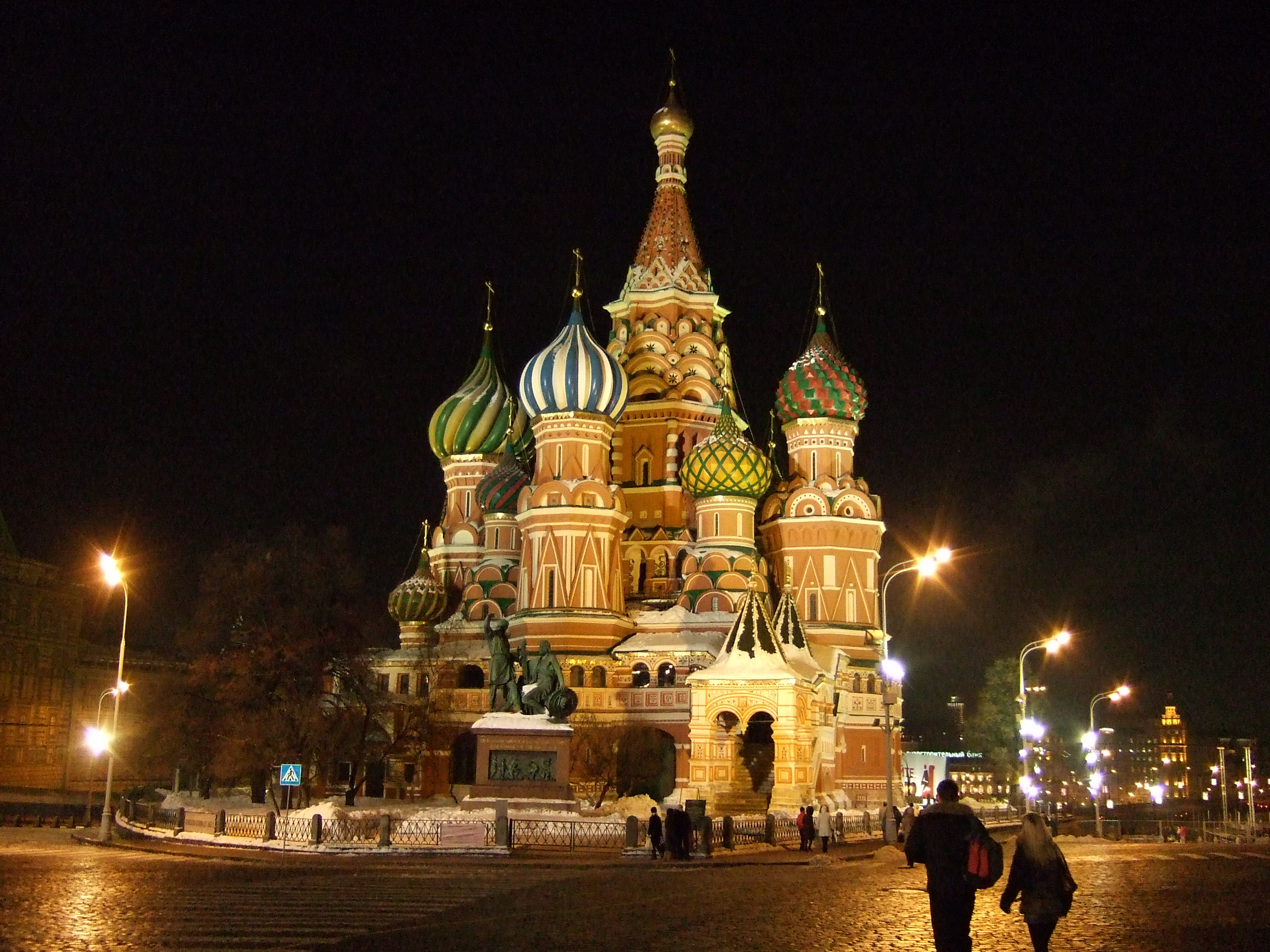 Saint Basil's Cathedral at night